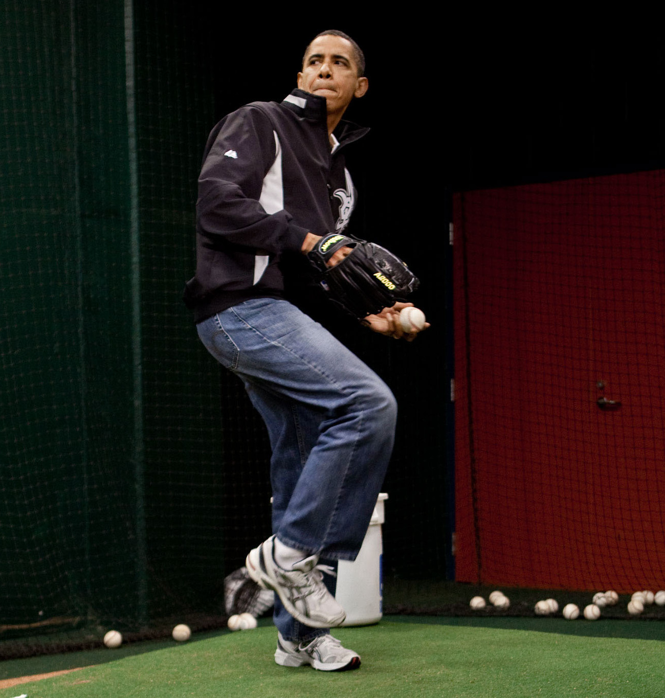 President Barack Obama practices throwing out the first pitch with St. Louis Cardinals first baseman Albert Pujols (not pictured) before the start of the MLB All-Star Game in St. Louis on July 14, 2009. White House press secretary Robert Gibbs is at right. President Obama later threw the first pitch to Pujols.